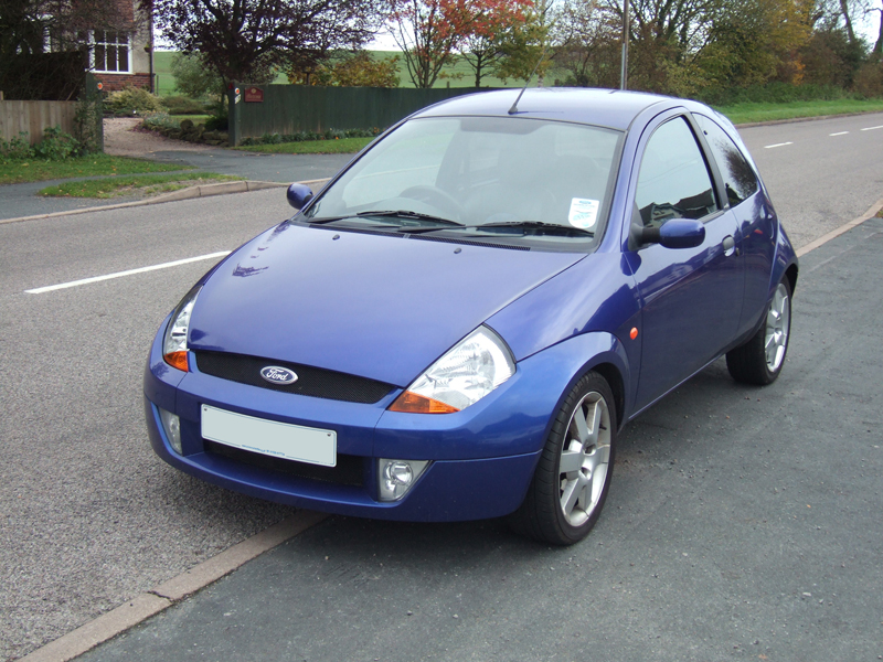 Ford Sport Ka